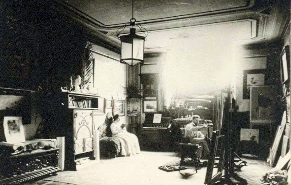 The painter Alexander Kircher in his studio in Triest at 1900